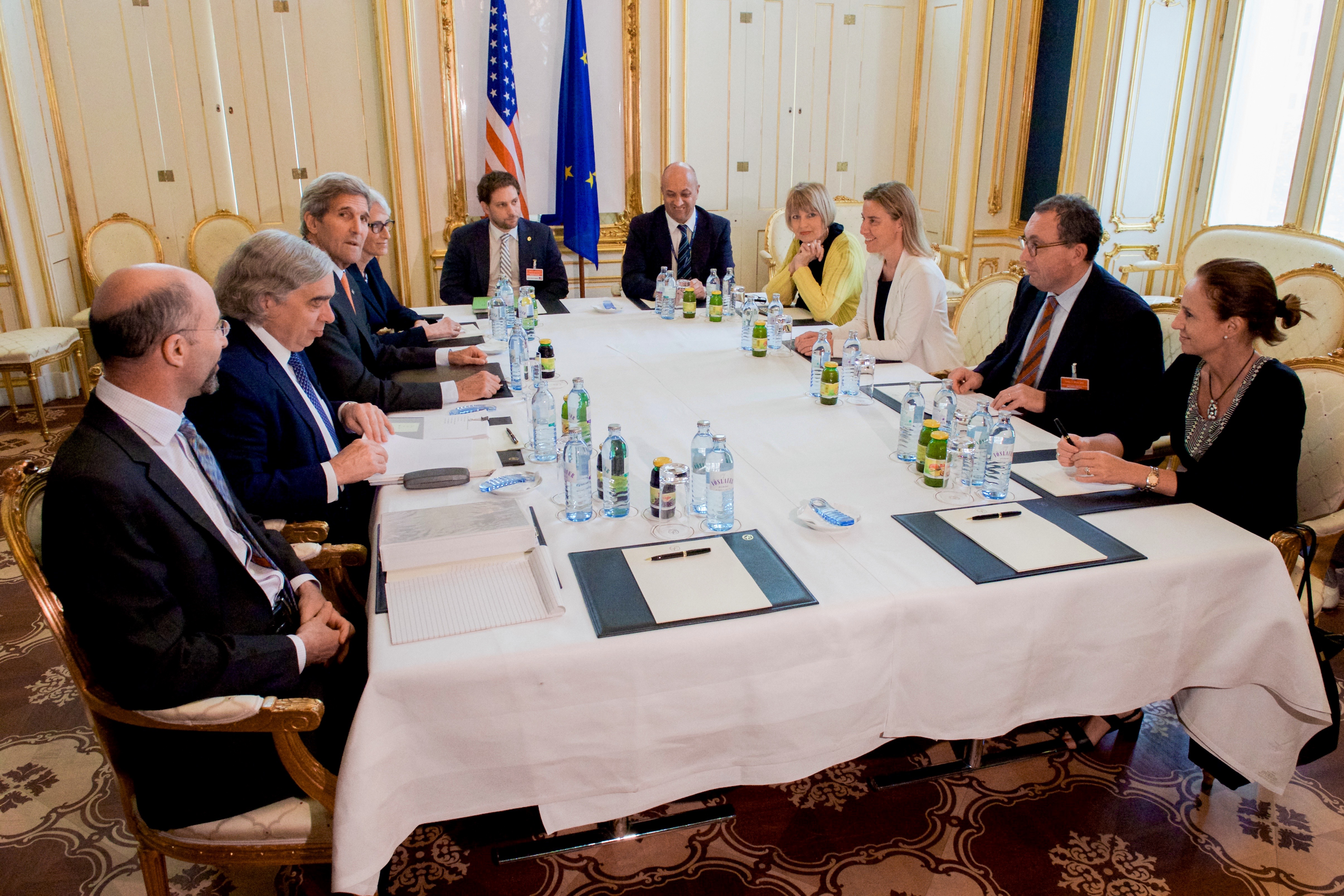 U.S. Secretary of State John Kerry - flanked by National Security Council Senior Director for Iran, Iraq, Syria and the Gulf States Robert Malley, U.S. Energy Secretary Dr. Ernest Moniz, Under Secretary of State for Political Affairs Wendy Sherman, and State Department Chief of Staff Jon Finer - sits across from European Union High Representative for Foreign Affairs Federica Mogherini and other advisers on June 28, 2015, in Vienna, Austria, before they exchange notes about ongoing negotiations over the future of Iran's nuclear program. [State Department Photo/Public Domain]